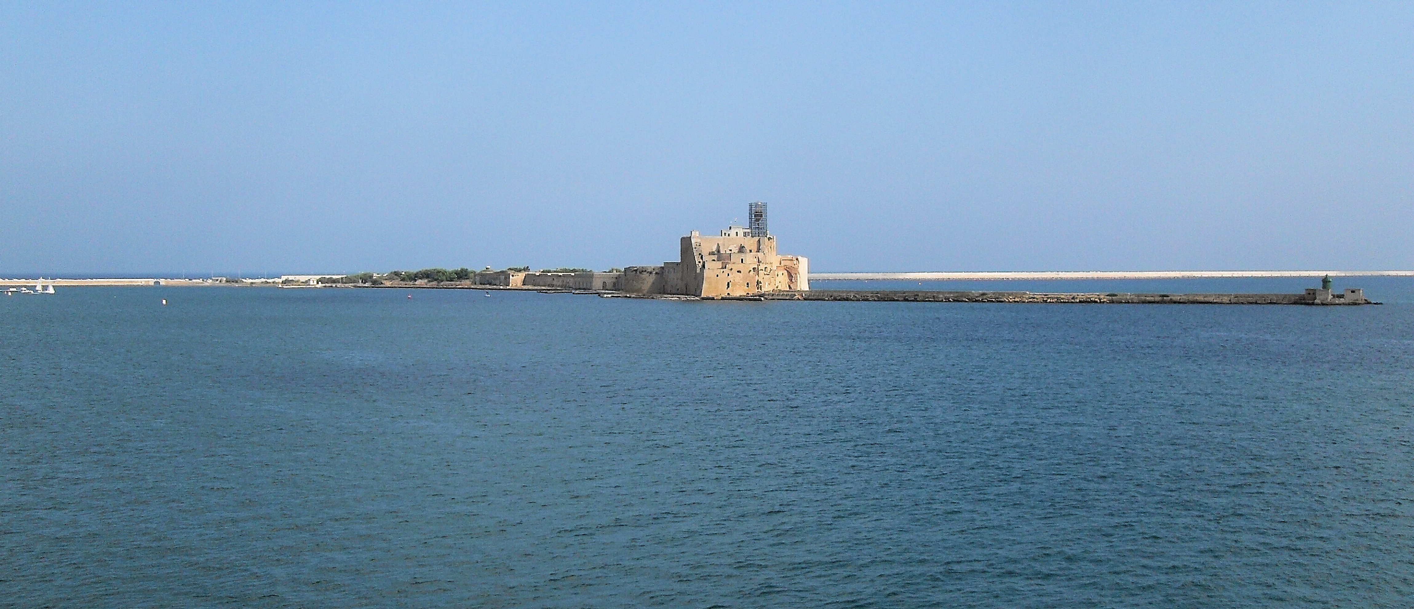 Old pier in the port of Brindisi, Italy